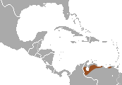 Hooded Red-sided Opossum (Monodelphis palliolata) range